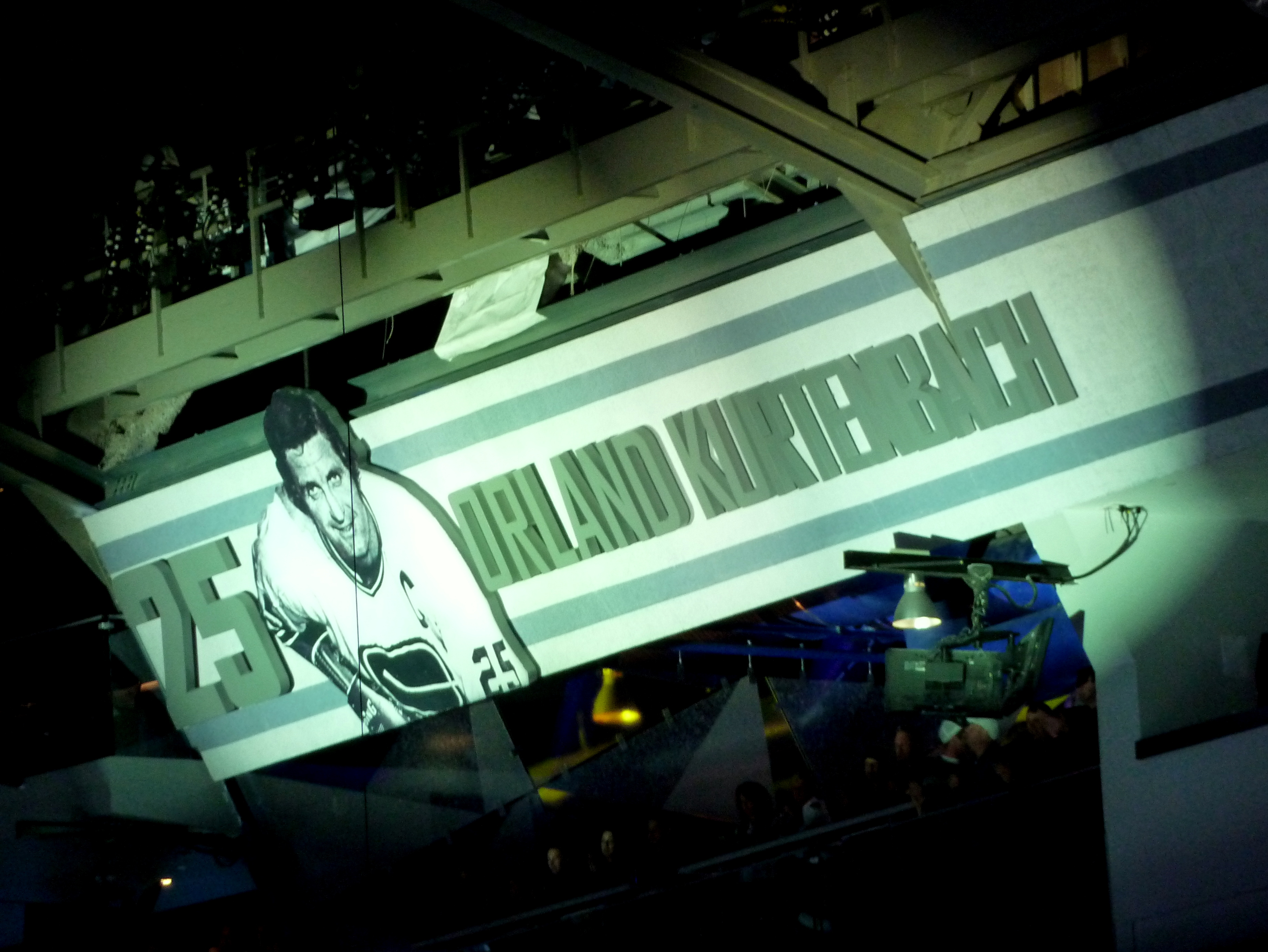 Orland Kurtenbach's Ring of Honour plaque, on the day of its unveiling in Rogers Arena on October 26, 2010.